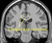 Cingulate sulcus. This image was constructed from the 1 mm resolution MRI T1 volume from the BrainWeb web-service. MRIcro and GIMP were used. Copyright status Finn Årup Nielsen owns the copyright (2004) to the image.